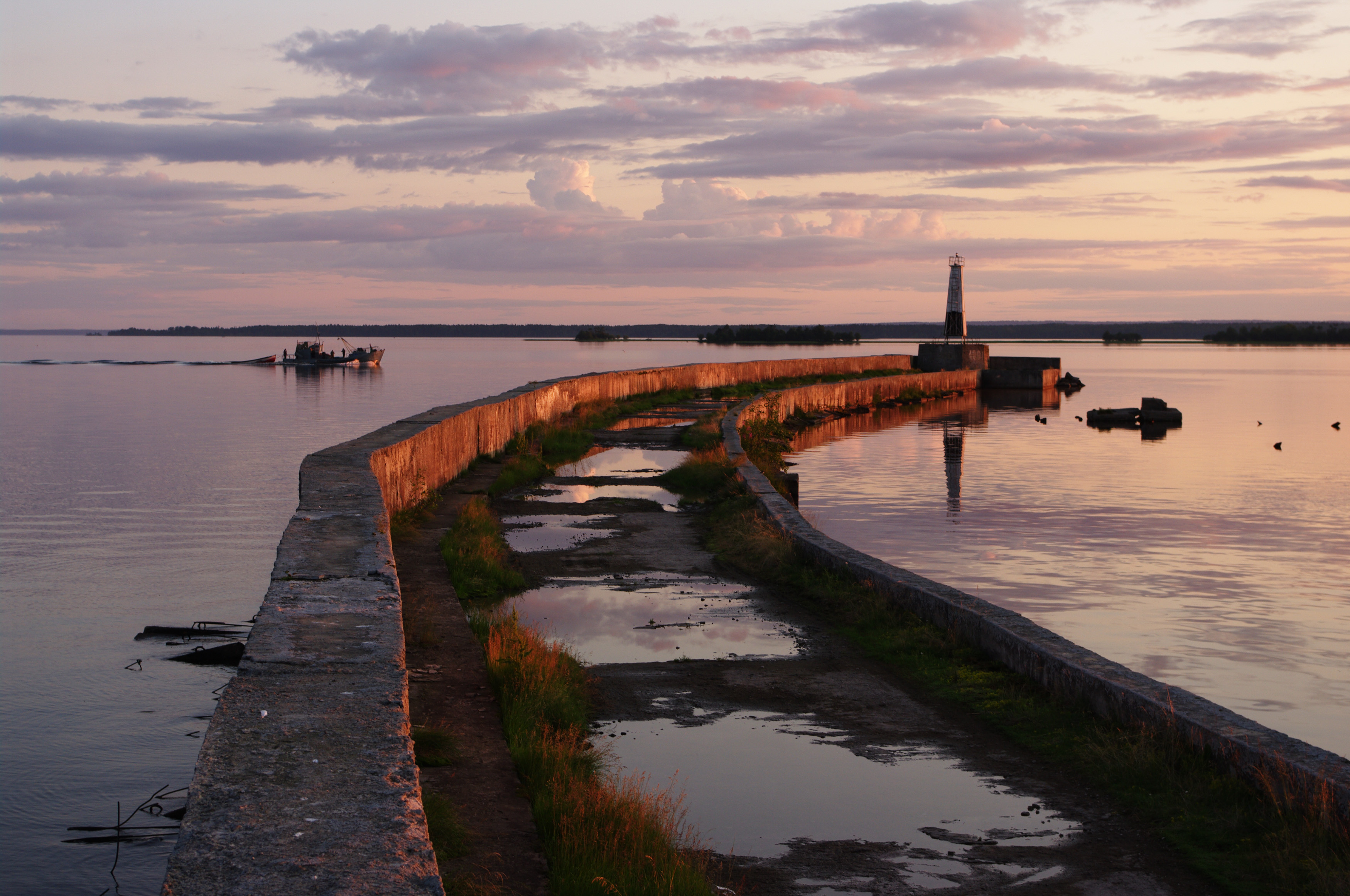 Breakwater on Lake Onega